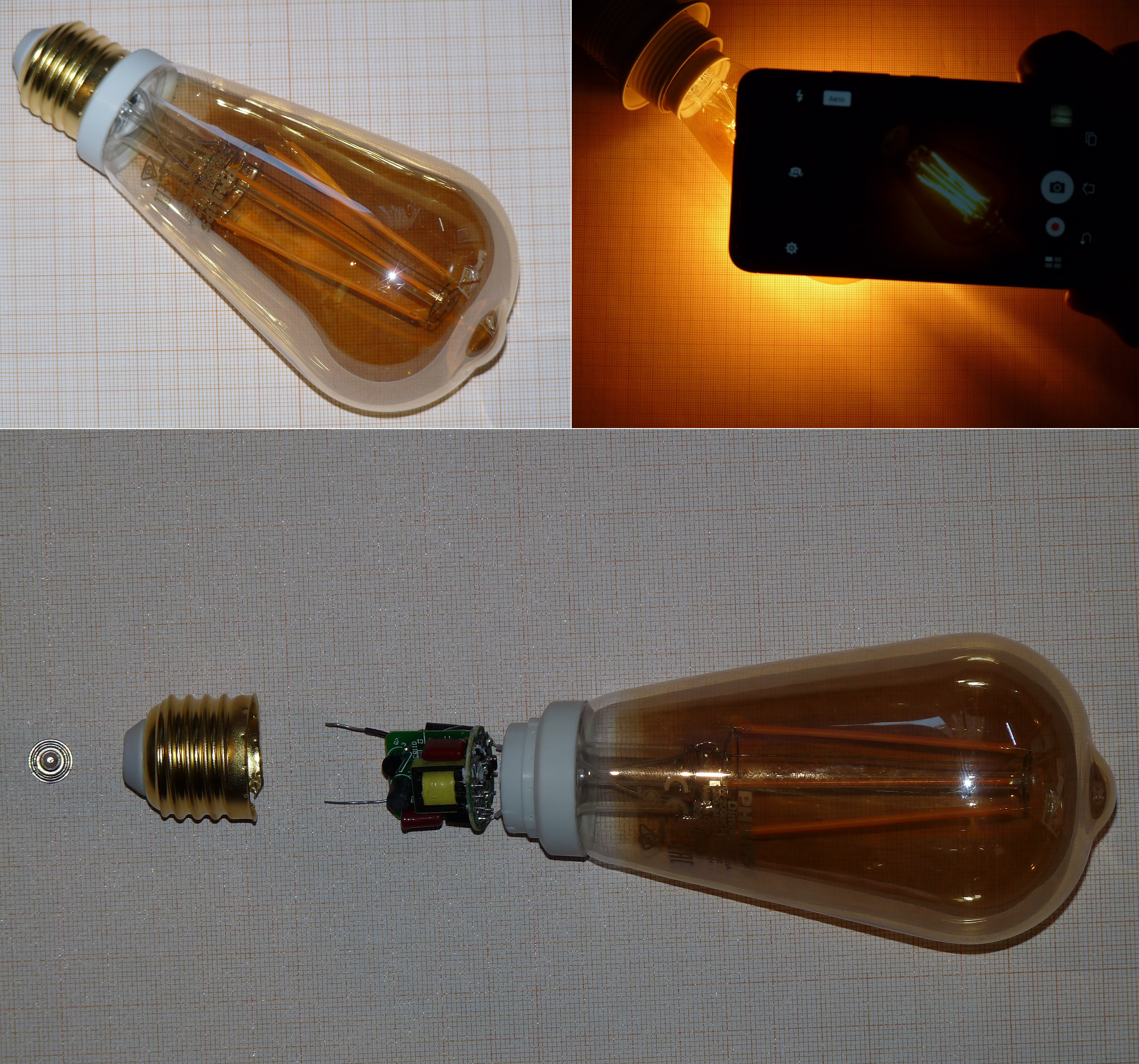 Disassembled COG-LED light bulb